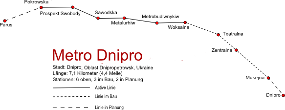 German version of the map of the Dnipropetrovsk Metro in Dnipropetrovsk, Ukraine.